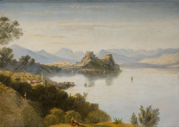 William Linton (1791-1876). Albanian Mountains with Corfu in Distance. 1840s